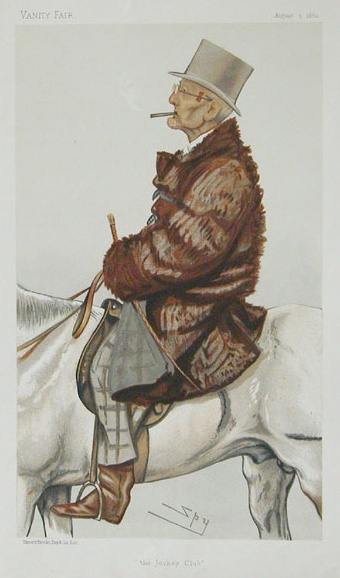 Caricature of Frederick Barne. Caption read "the Jockey Club".